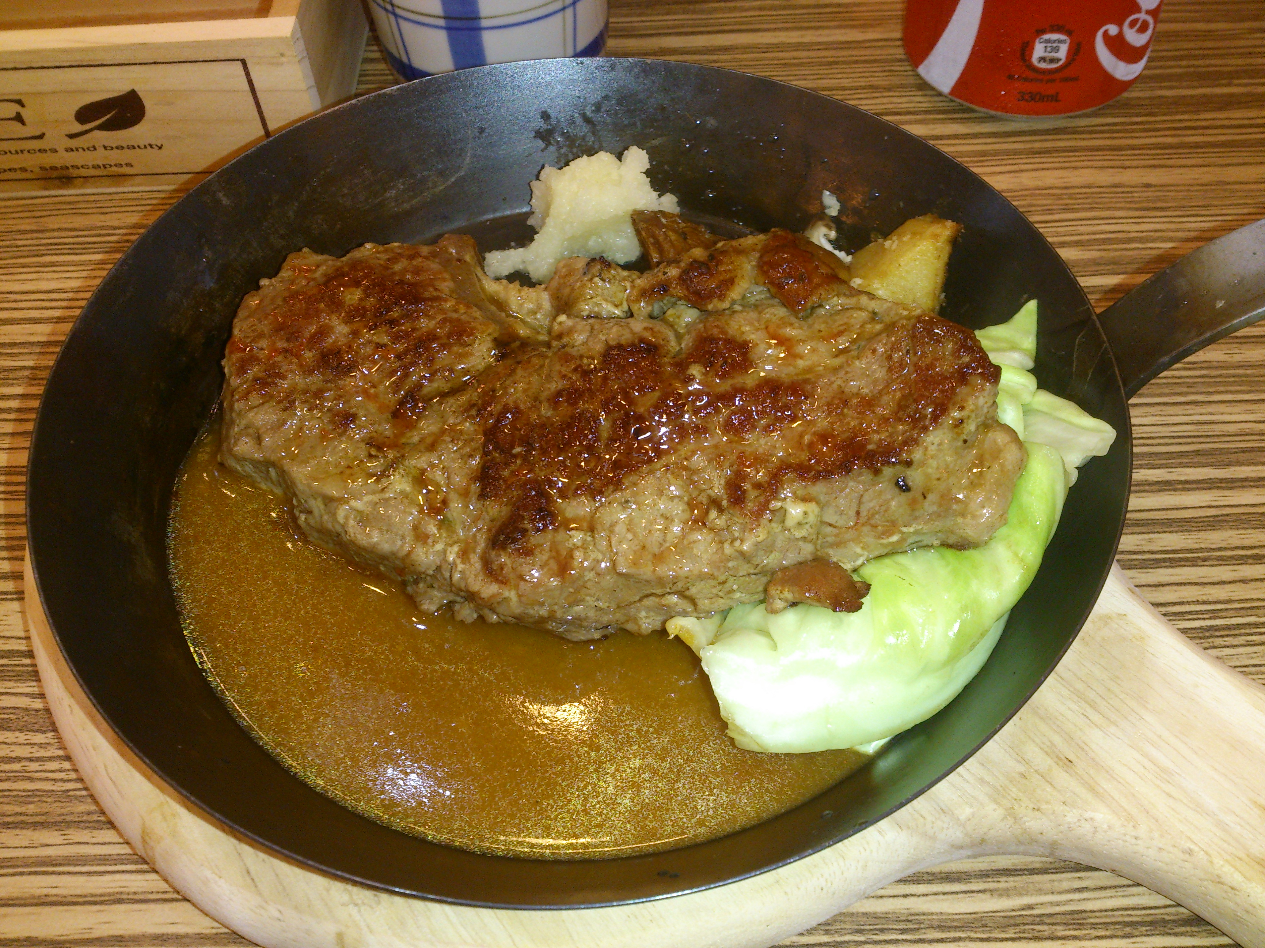 Pan-fried Rib Eye Steak